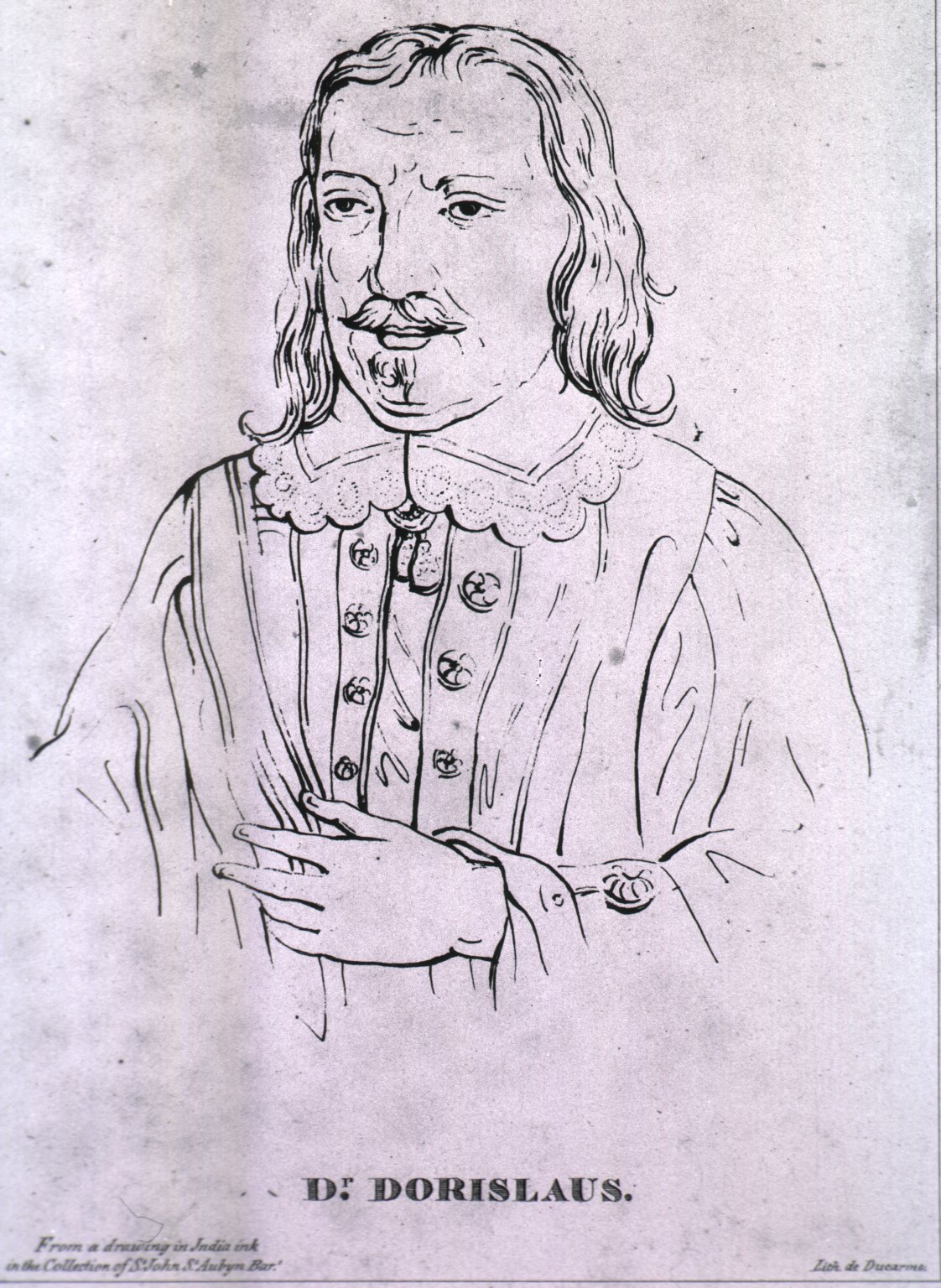 Isaac Dorislaus, Anglo-Dutch lawyer and diplomat